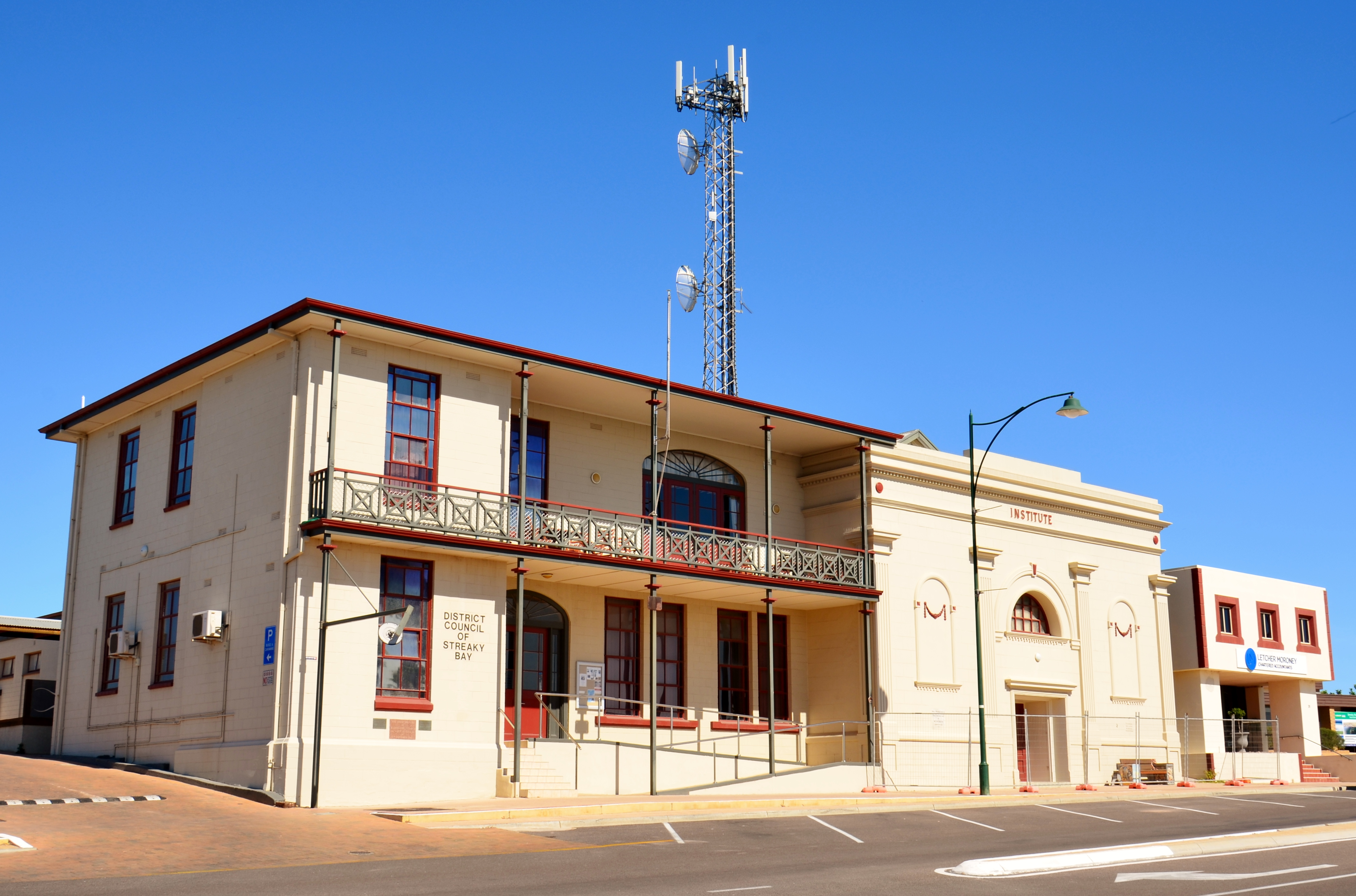 View of the District Council of Streaky Bay office in Alfred Terrace, Streaky Bay, South Australia (left), and a couple of accompanying buildings alongside